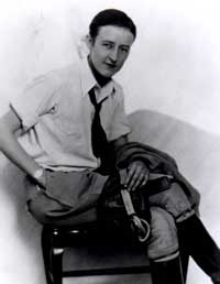 Portrait of Evelyn Bobbi Trout